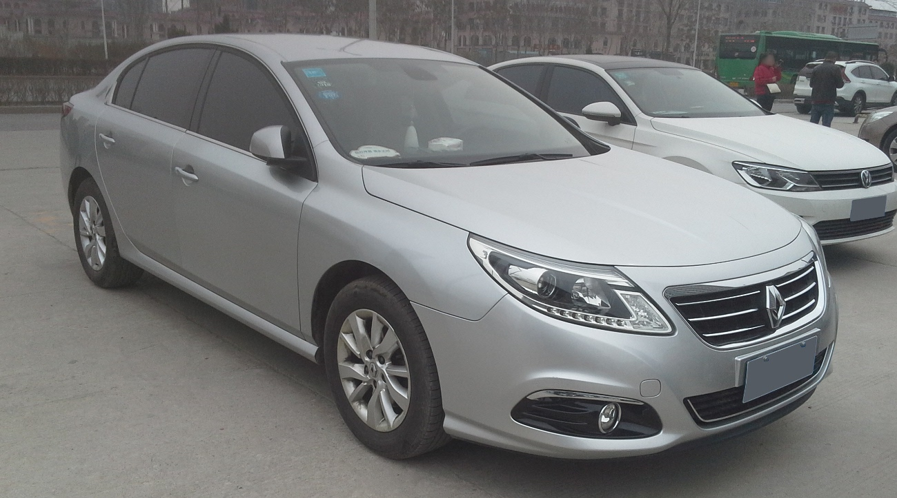 Renault Latitude facelift photographed in Yinchuan, Ningxia province, China.